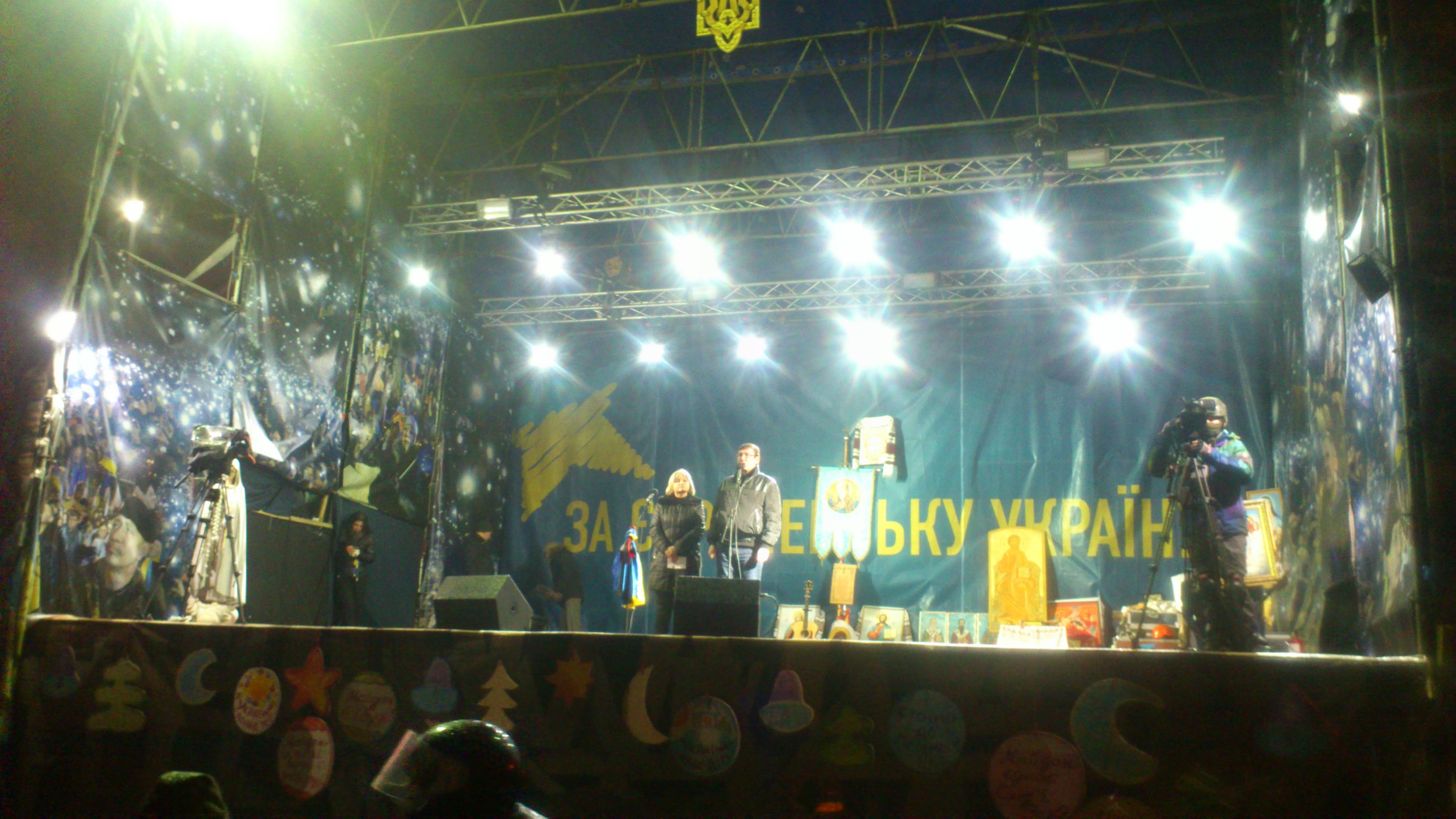 Yuriy Lutsenko with wife Iryna at Euromaidan in Kiev February 19, 2014, night